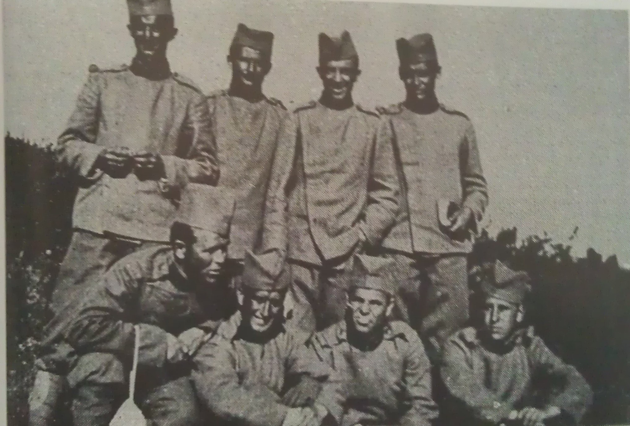 Димката во интернација во Ивањца, 1941 година